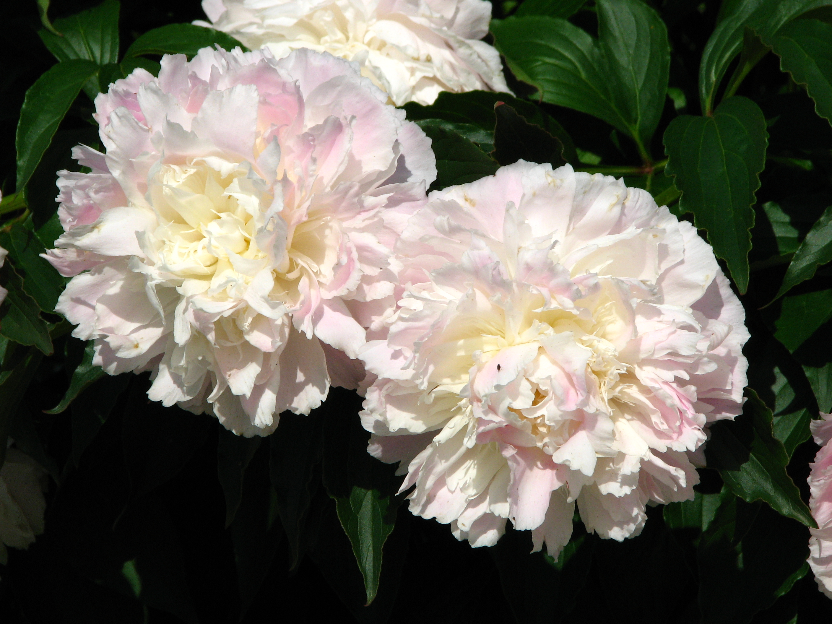 Paeonia lactiflora 'Shirley Temple'. From the collection of the Botanical Garden of Moscow State University (main area on the Sparrow Hills).